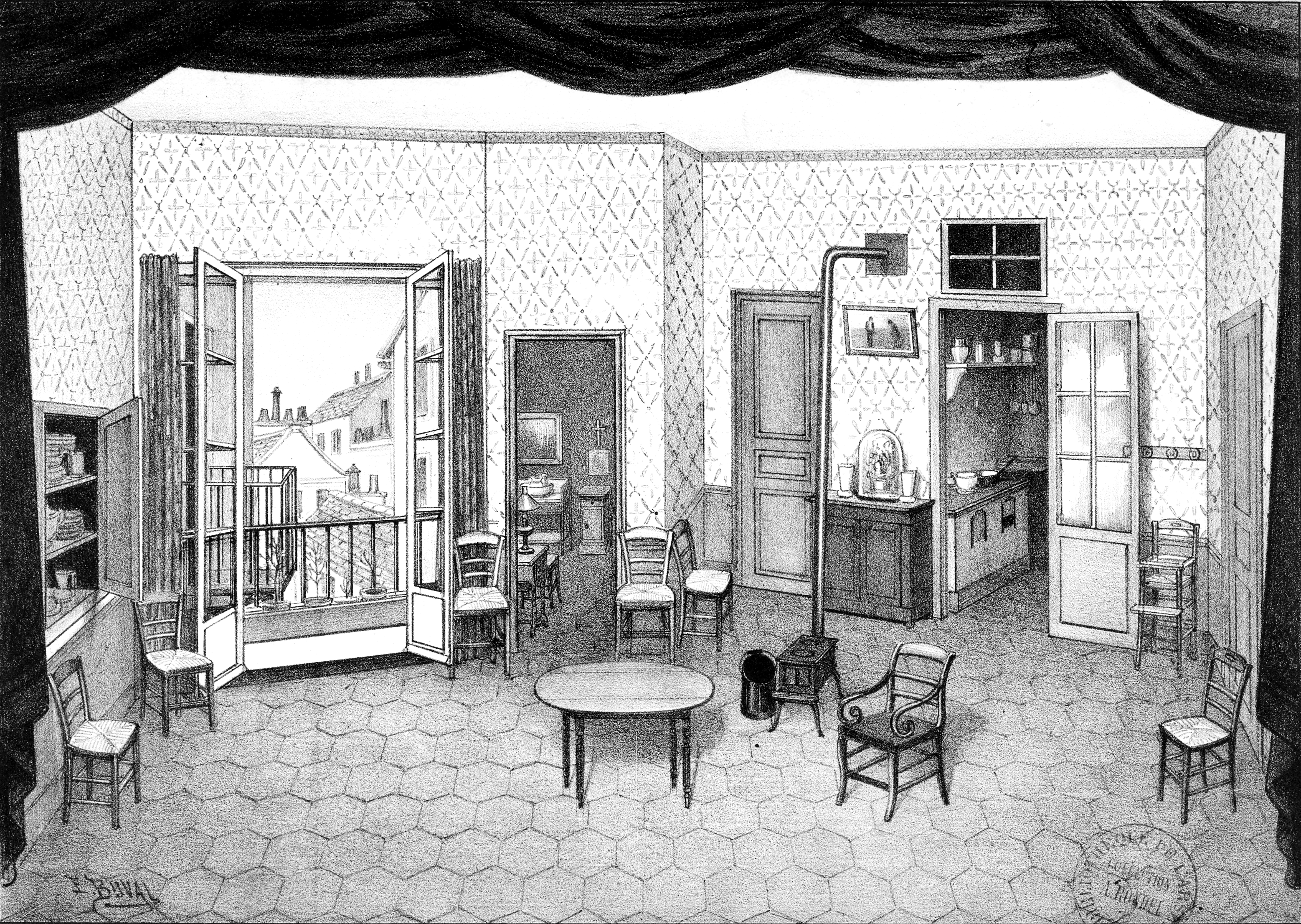 Gustave Charpentier - Louise - 2e Acte 2e Tableau - Heugel